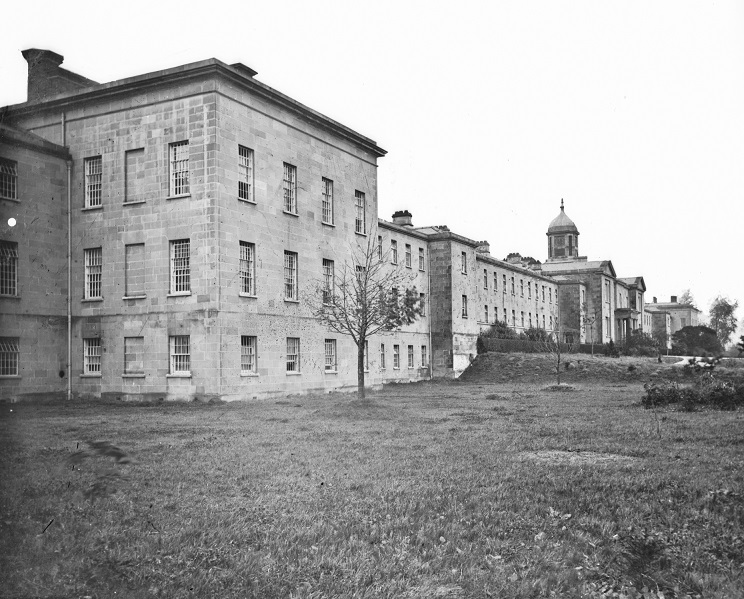 Old photo of Belfast District Lunatic Asylum